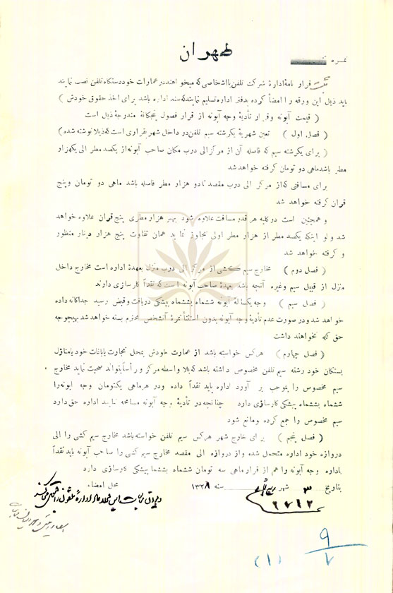 A Landline installation contract for private buildings published on April 14, 1910 in Tehran in Persian and French.main page on nlai.ir The contract was drafted in Persian and French in five chapters, tariffs for telephone installation stated according to the distance, wire used and subscription fee from the telephone center to the desired location inside and outside the city of Tehran for as private use.